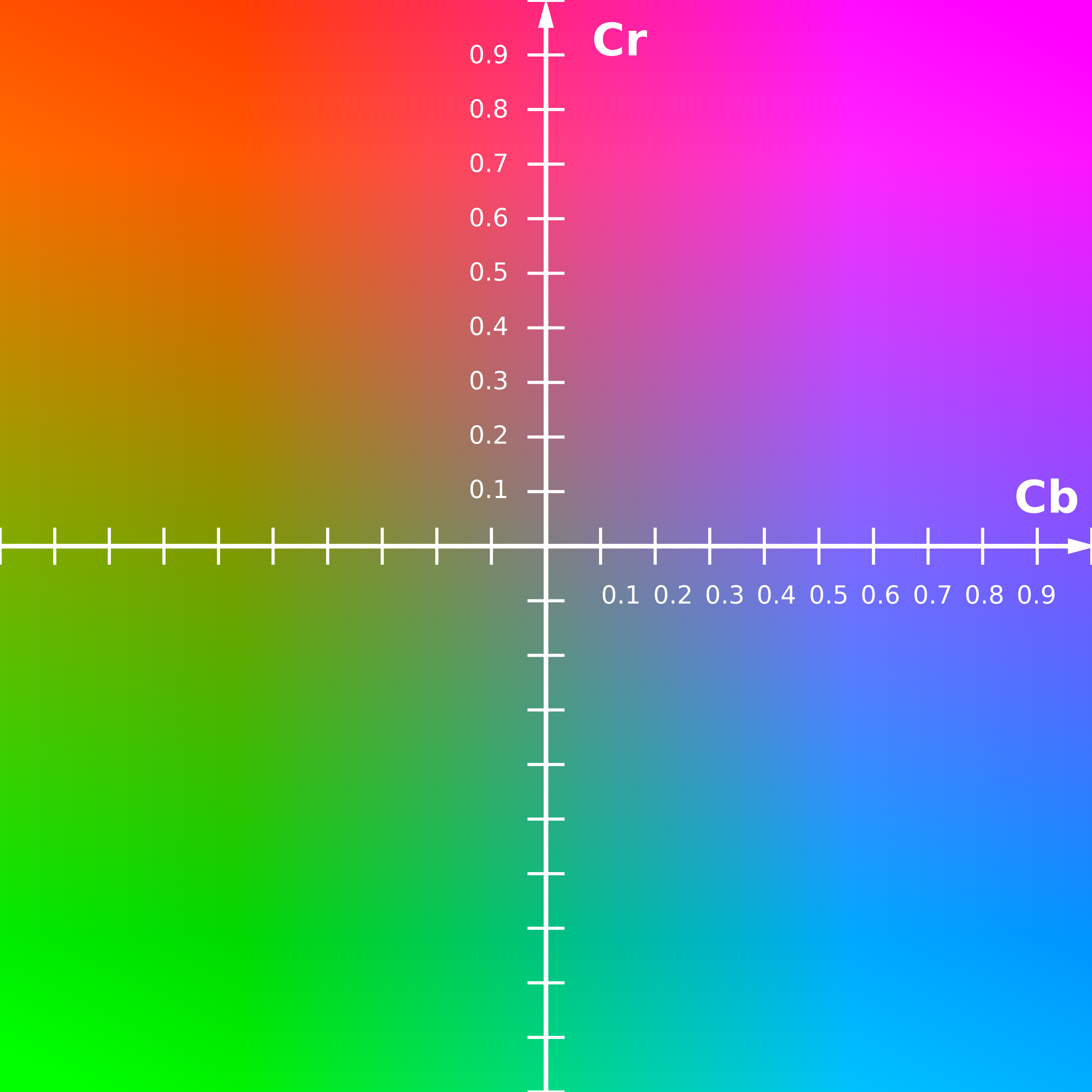 CbCr plane of the YCbCr color space, with a Y value of 0.5, Cb on the horizontal x axis going from -1 to 1, Cr on the y axis going from -1 to 1 as well. Created with kdenlive's export function in the Vectorscope (development version). Scale added with Inkscape.